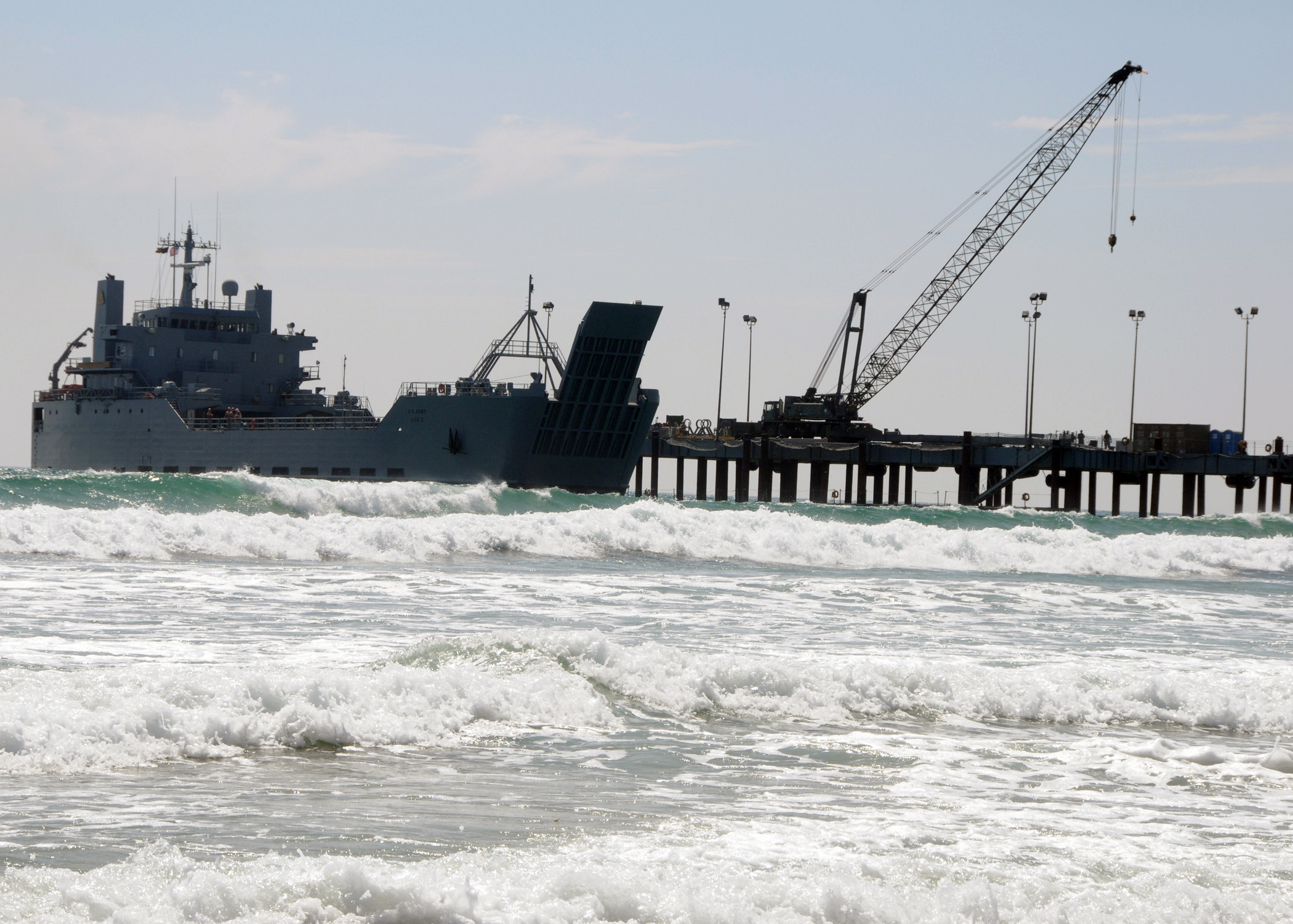 CAMP PENDLETON, Calif. (July 22, 2008) The Army logistic support ship Gen. Brehon B. Somervell (LSV 3) approaches the surf zone as it comes alongside the elevated causeway system at Red Beach in Camp Pendelton, Calif. during Joint Logistics Over-The-Shore (JLOTS) 2008. JLOTS 2008 is an engineering, logistical training exercise between Army and Navy units under a joint force commander as a means to load and unload ships without the benefit of deep draft-capable, fixed port facilities. U.S. Navy photo by Mass Communication Specialist 2nd Class Brian P. Caracci/Released)